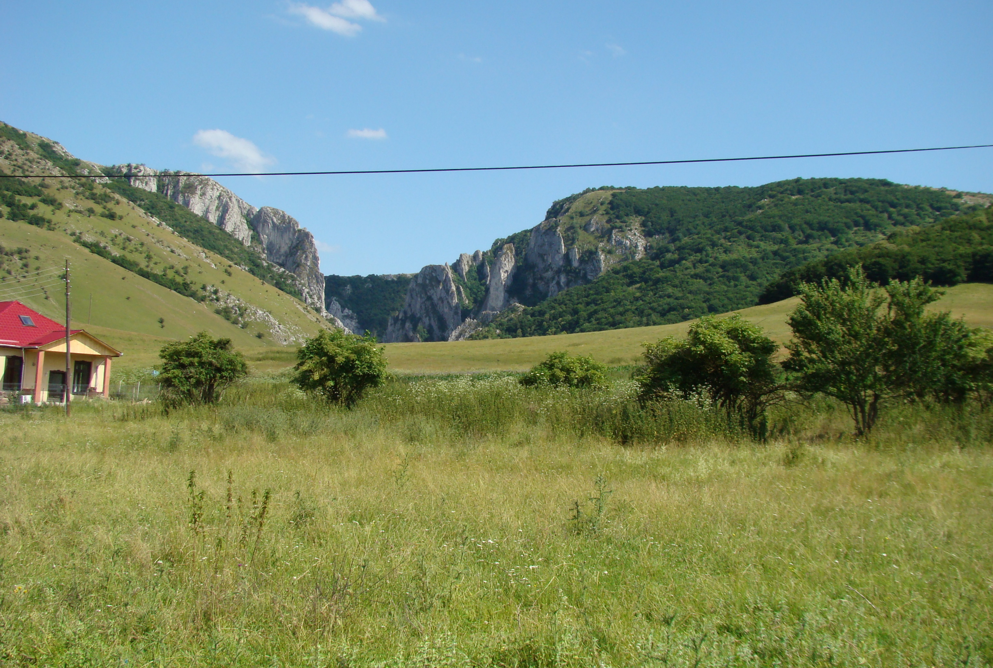 Petreștii de Jos, Cluj county, Romania